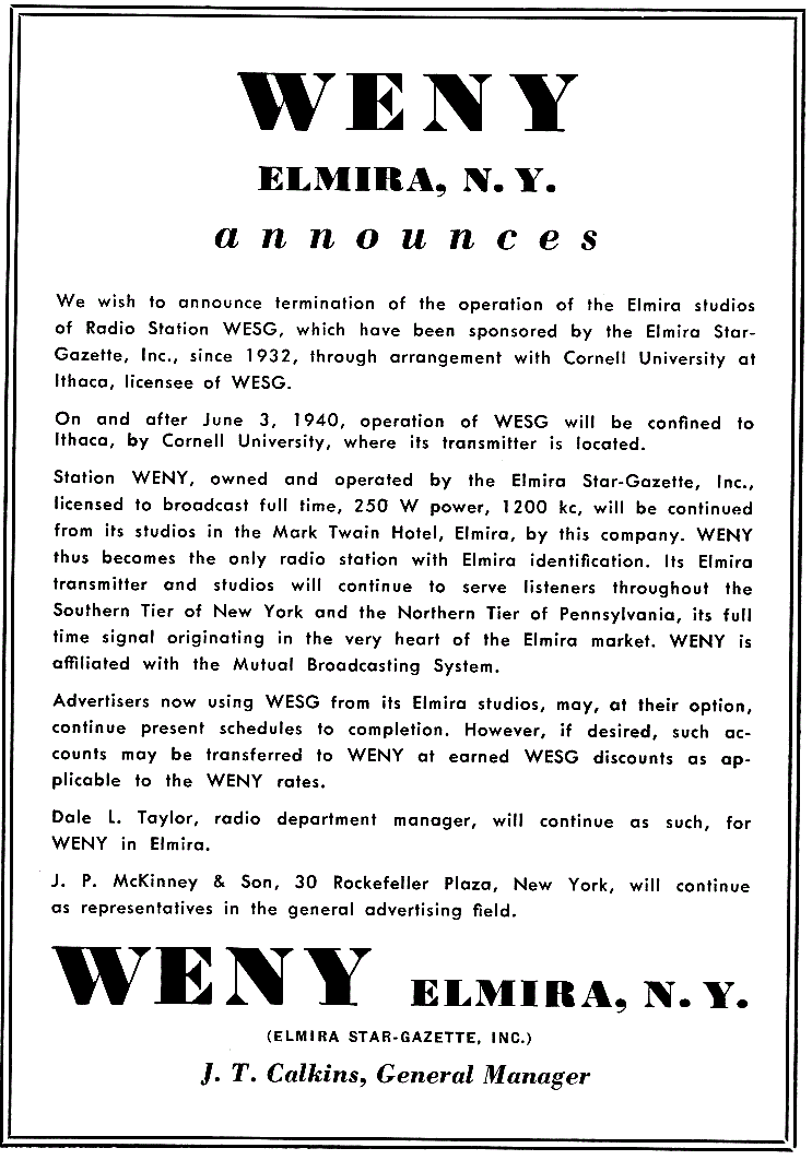 In 1940 the Elmira (New York) Star-Gazette ended its lease of Cornell University's radio station WESG, and transferred all its radio operations to its own station, WENY in Elmira.